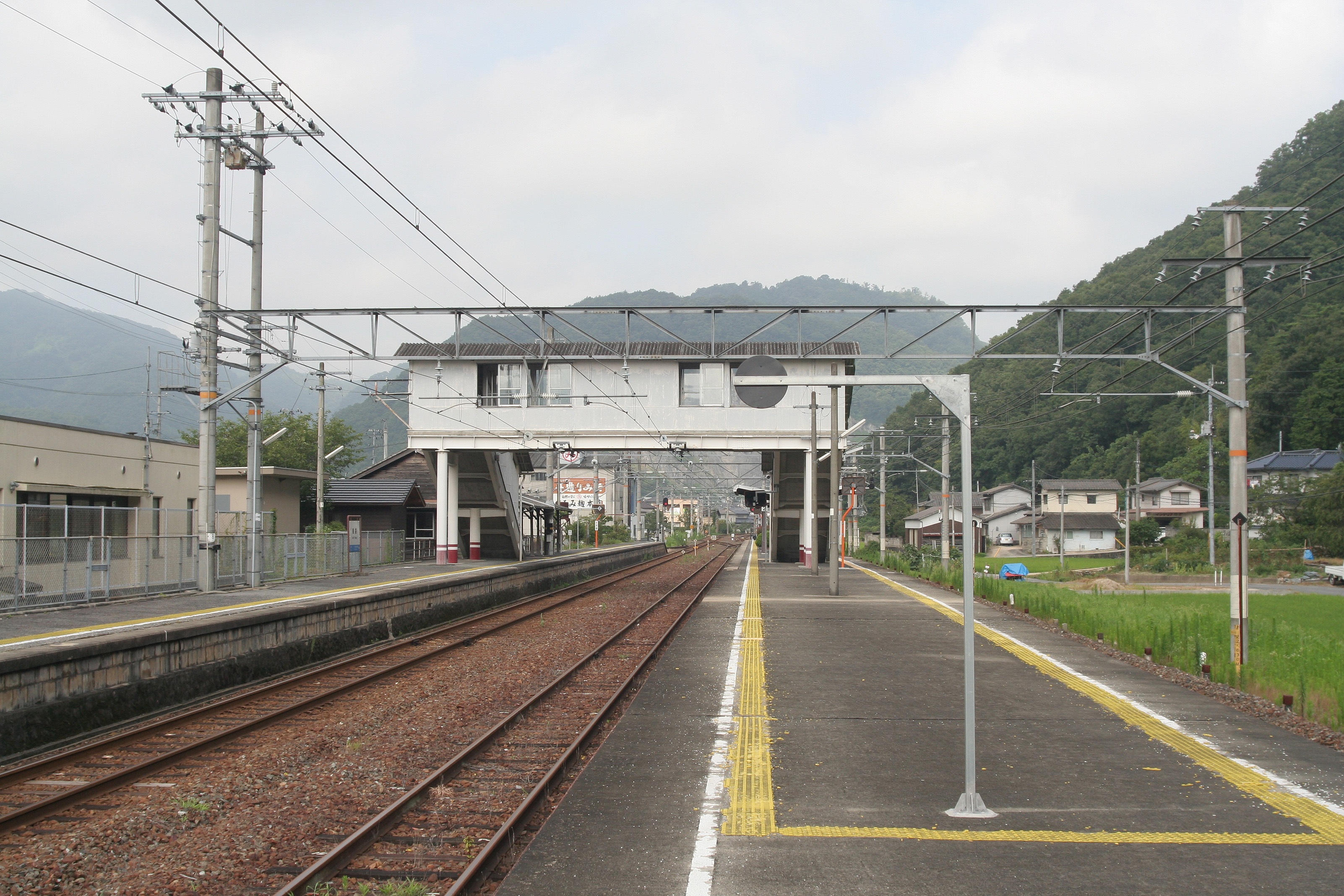 West Japan Railway Hakubi Line minagi station enclosure